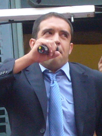 Juanra on the balcony of the City of Alicante during the celebrations for the rise of Hercules C. F. to First division in 2009/10 season.